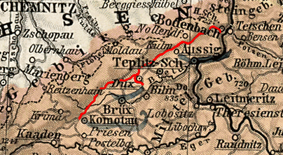 Dux-Bodenbacher Eisenbahn network